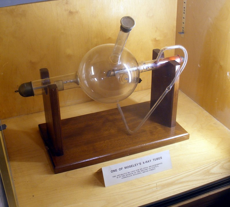 Exhibit in the Martin Wood lecture theatre.